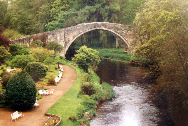 The Auld Brig O' Doon. Taken from the other Brig O'Doon 44160. Gardens belong to the Brig O'Doon House Hotel [Costly & Costly Hotels] "Brigadoon", Lerner and Loewe's classic Broadway fantasy scottish musical, was probably based on this famous Scottish landmark in Alloway.